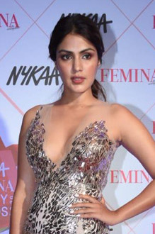 Rhea Chakraborty, 6th Nykaa Femina Beauty Awards 2020, Feb 18.